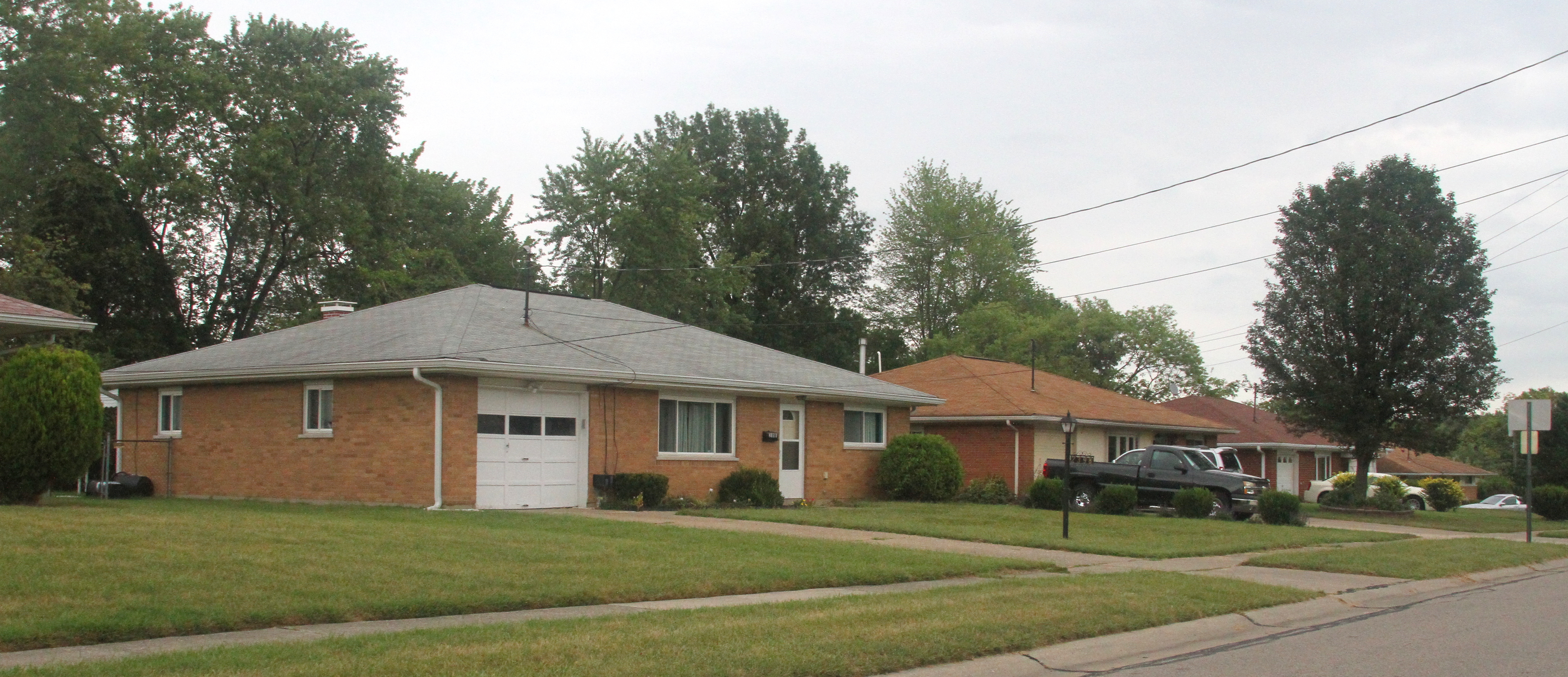 Skyline Acres unincorporated community in Hamilton County, Ohio